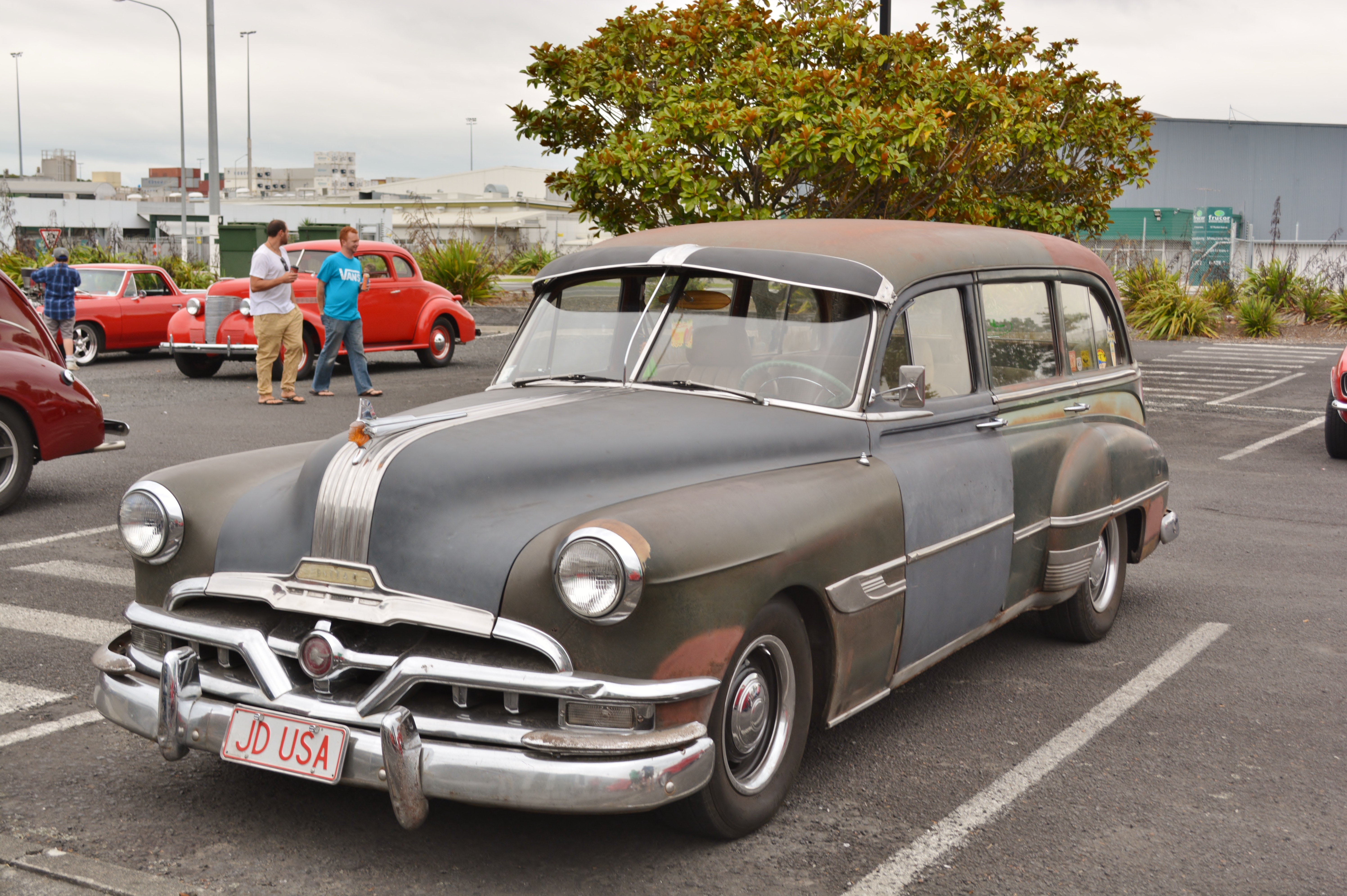 1952 Pontiac Chieftain Deluxe Station Wagon in New Zealand.